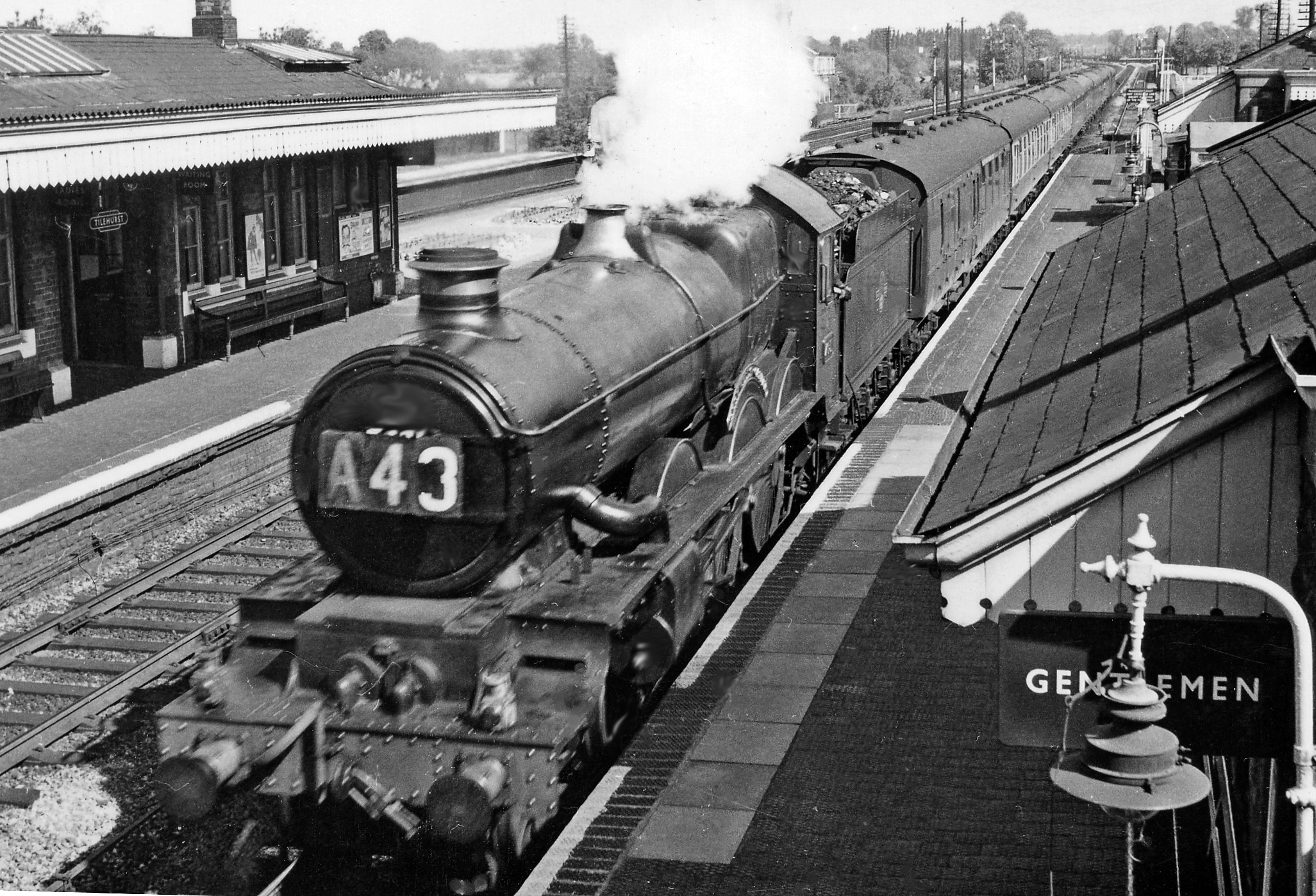 Down Hereford express passing Tilehurst station. View eastward, towards Reading and London; ex-GWR Paddington - Reading - Swindon - Bristol etc. main line. The 15.15 from Paddington will run via Oxford and Worcester and reach Hereford in about 3½ hours, headed by a splendidly clean 'Castle' 4-6-0', one of the short-lived post-war batch, No. 7031 'Cromwell's Castle' (built 6/50, withdrawn 7/63).